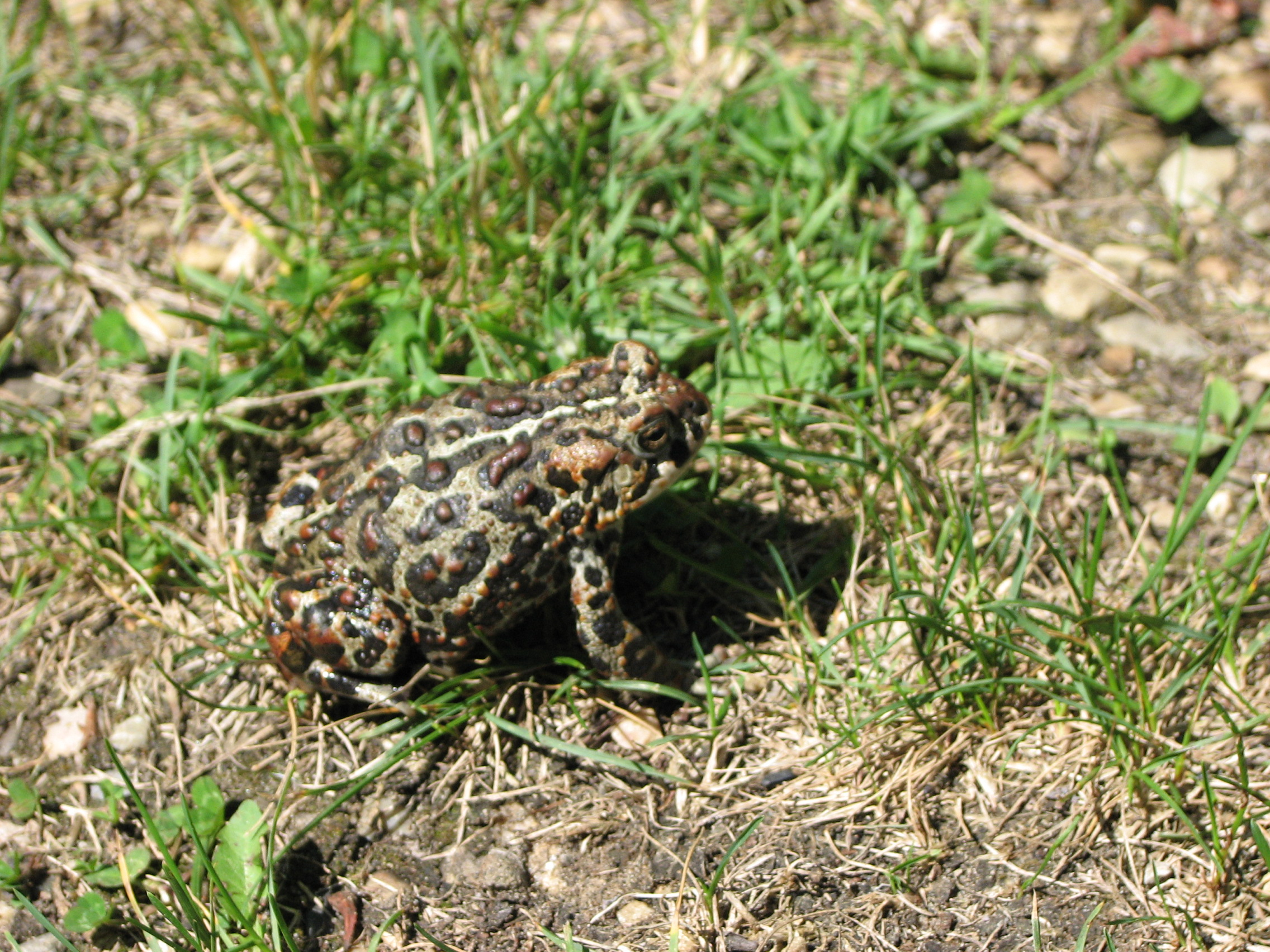 Western Toad (Bufo boreas) at Wagner Natural Area, Alberta